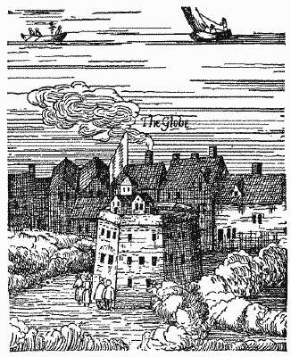 In Shakespearean Playhouses, by Joseph Quincy Adams, this image is identified as the first Globe Theatre and is taken from Visscher's View of London published in 1616, but representing the city as it was several years earlier. In Shapiro, I. A. (1948). The Bankside Theatres: early engravings. Shakespeare Survey (Cambridge, England: Cambridge University Press) 1: 31. "…Visscher misnames it [sc. The Rose] the Globe and omits the latter altogether."